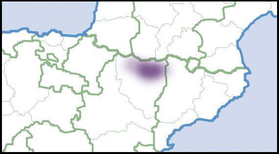 Pyrenaearia cotiellae (Fagot, 1906). Distribution in Europe, scientific state of knowledge of 2012. Source description in English. Light colour indicated rare occurrences or regions where the species could eventually be expected to occur. Dark colour indicated relatively reliable occurrences, as well as regions where the species was expected to occur, and where the species was not known to be extremely rare. Dark colour indications were not necessarily based on published records. Species summary in AnimalBase